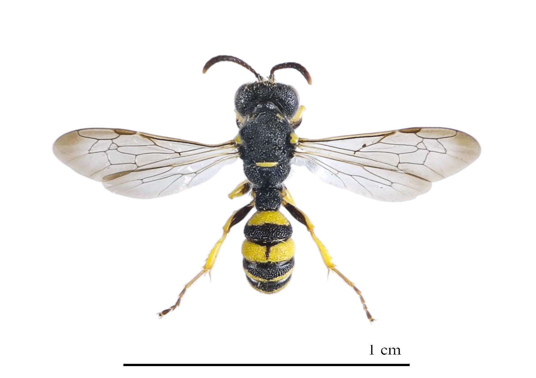 Male - Dorsal side Locality: Maourine pond, Toulouse, France